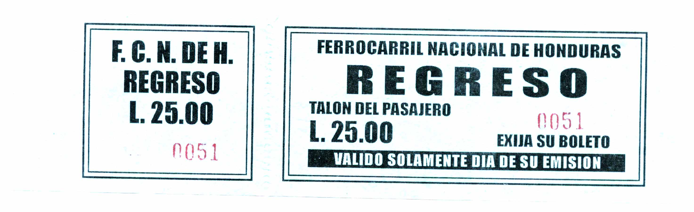 Passenger ticket of FNH (Ferrocarril Nacional de Honduras). It was probably used for transport between San Pedro Sula and Tela during the last period of operations (all passenger trains were suspended in 2004).